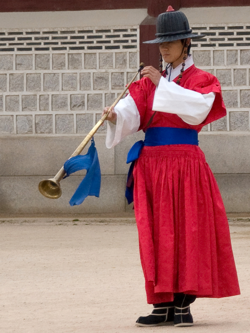 Nabal, a Korean traditional musical instruments. Cropped the relevant item from the original.